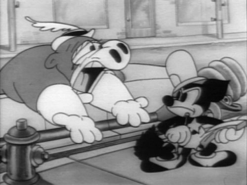 Screenshot from One More Time, a 1931 Warner Bros. cartoon. For details, check the link below: Golden Age Cartoons